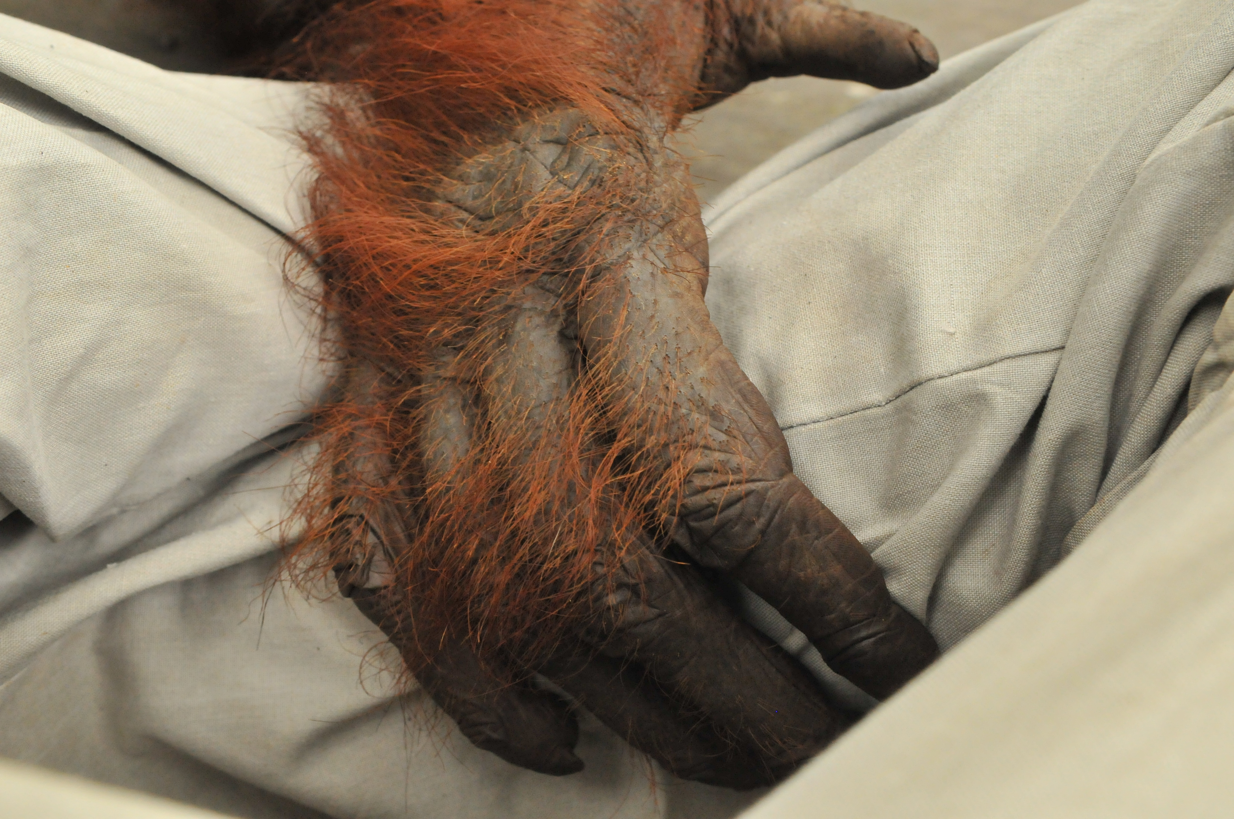 Hand, Borneo orangutan (Pongo pygmaeus), adult female. Camp Leakey, Tanjung Puting, Kalimantan (Indonesia). Free living but used to contact with humans. Depends on food supplements they provide